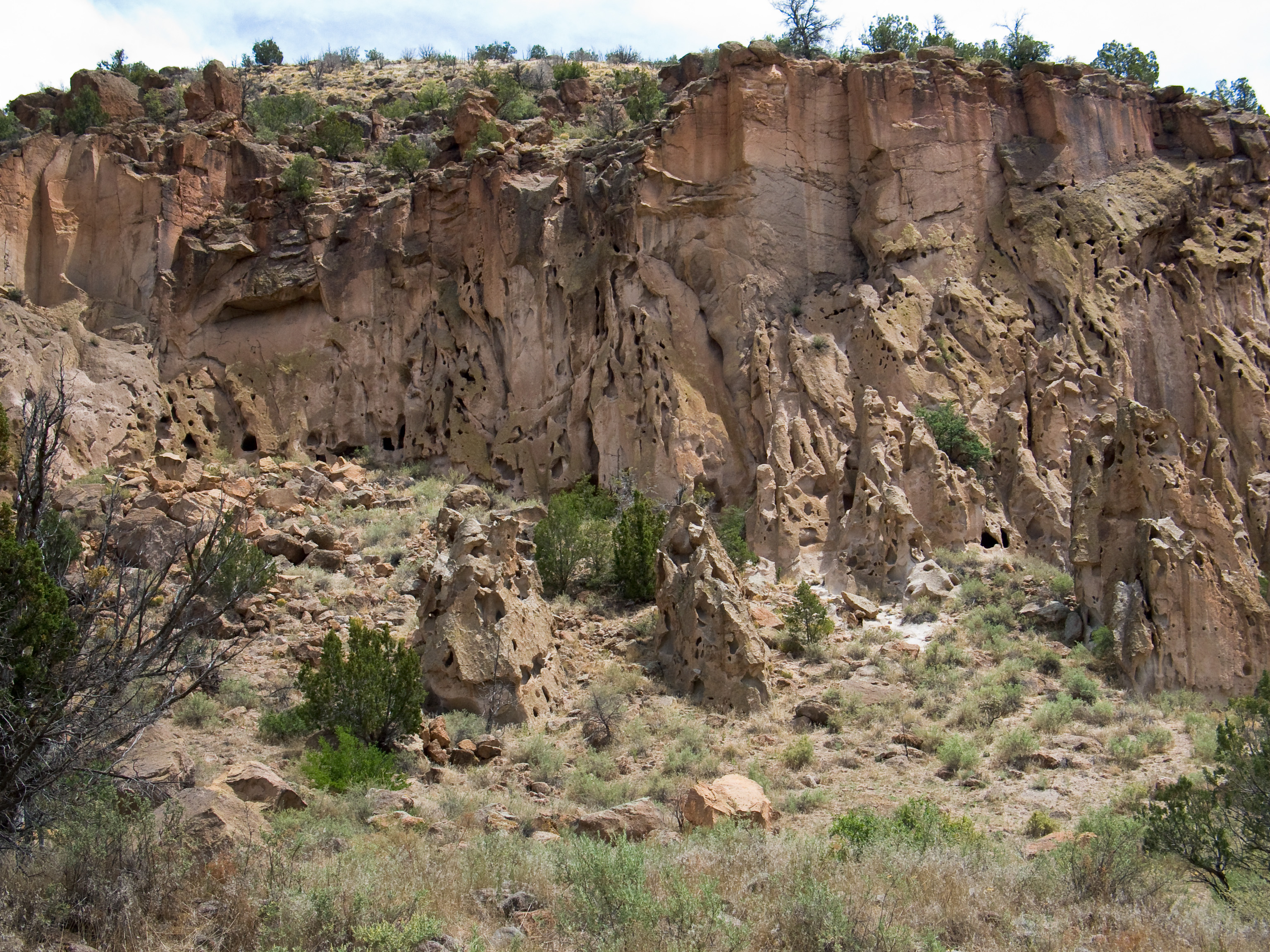 A cliff of consolidated volcanic ash (tuff) in Bandelier National Monument near Los Alamos, New Mexico